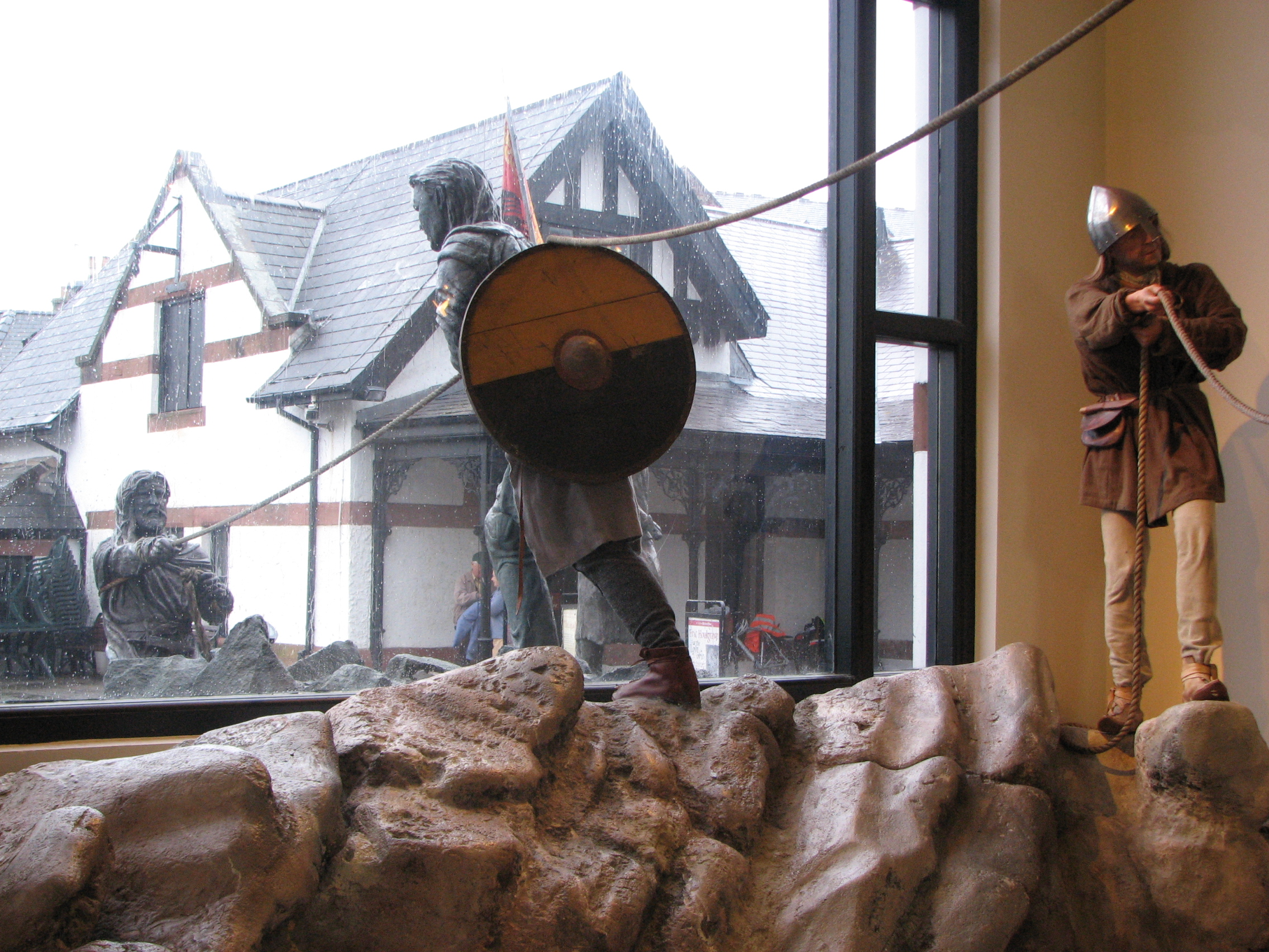 Vikings at display at the House of Manannan, Peel, Isle of Man. Part of the displey is outside of the window